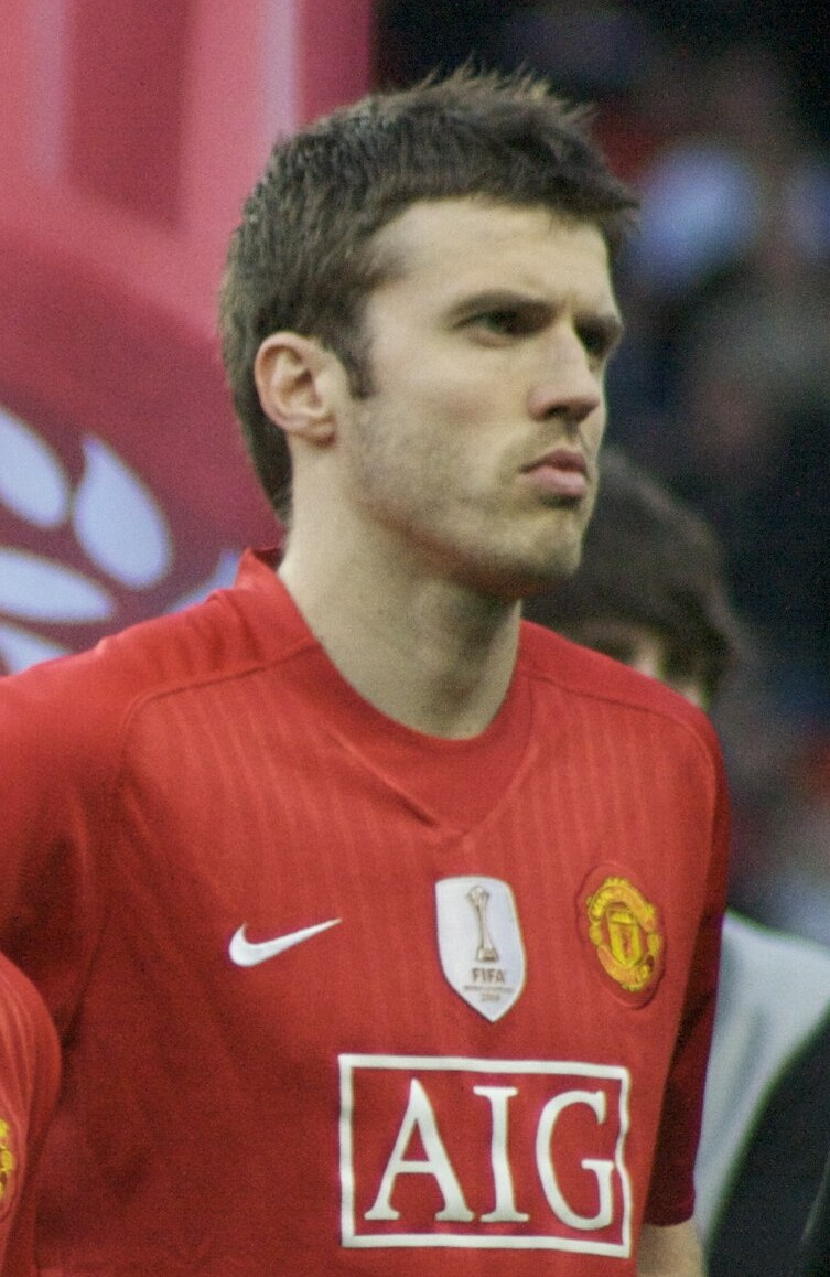 Michael Carrick in 2009 This file has been extracted from another file: O'Shea Rooney Carrick.jpg